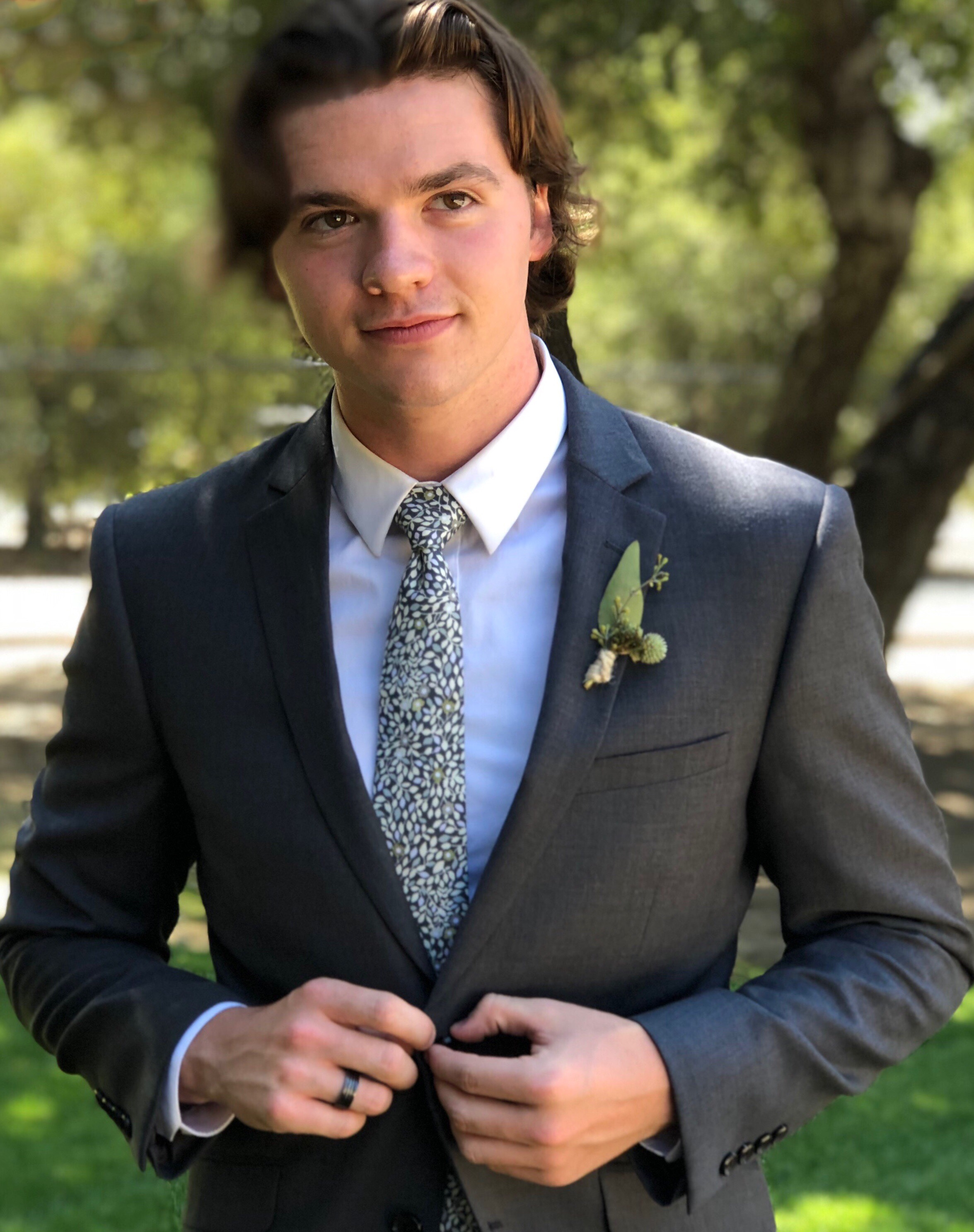 This is a photo of Joel_Courtney as a groomsman at his roommate Jordan's wedding on 18 Aug 2018.